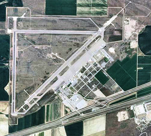 USGS digital orthophoto of Pocatello Regional Airport in Idaho